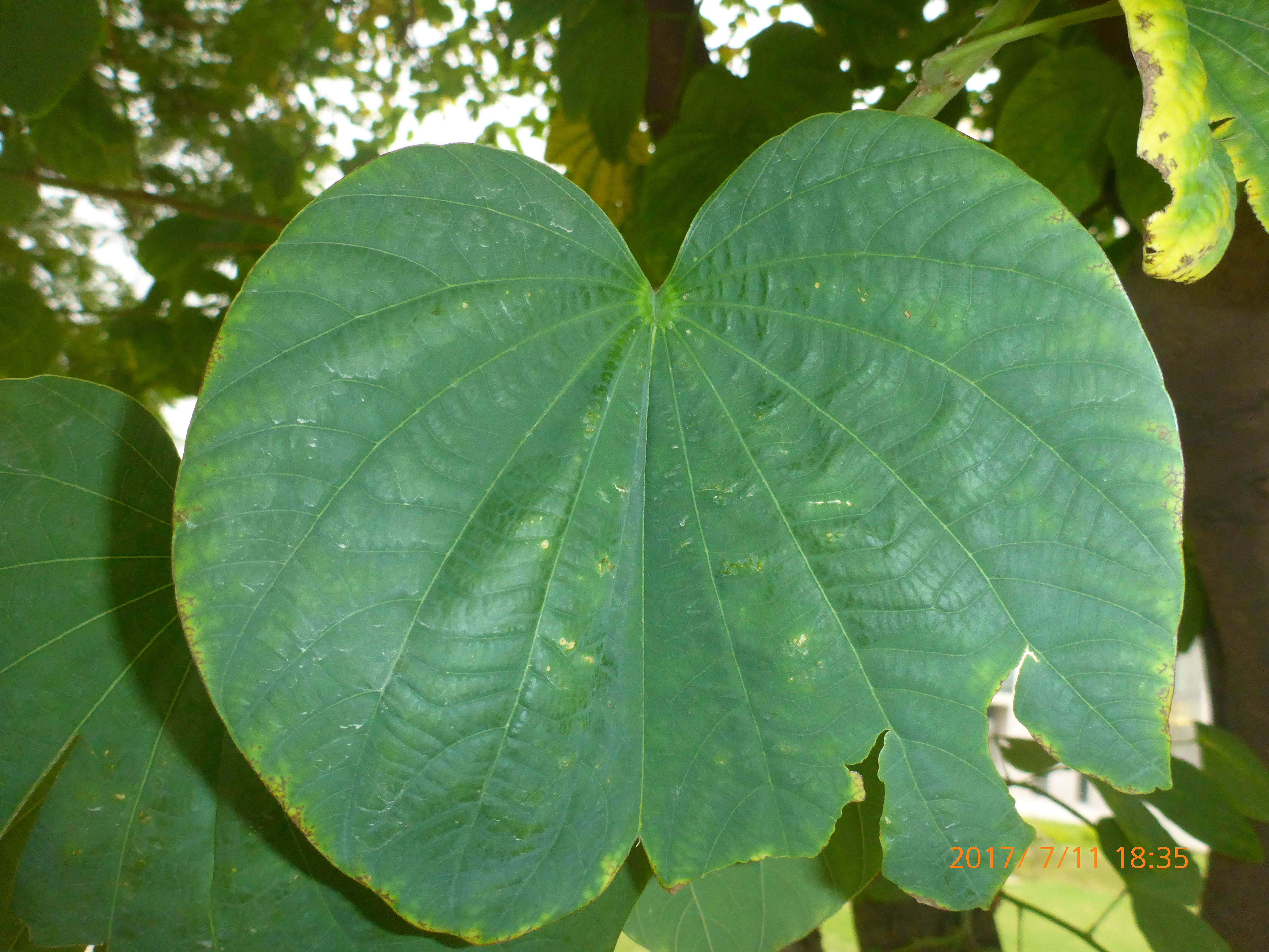 Leaf of Phanera purpurea